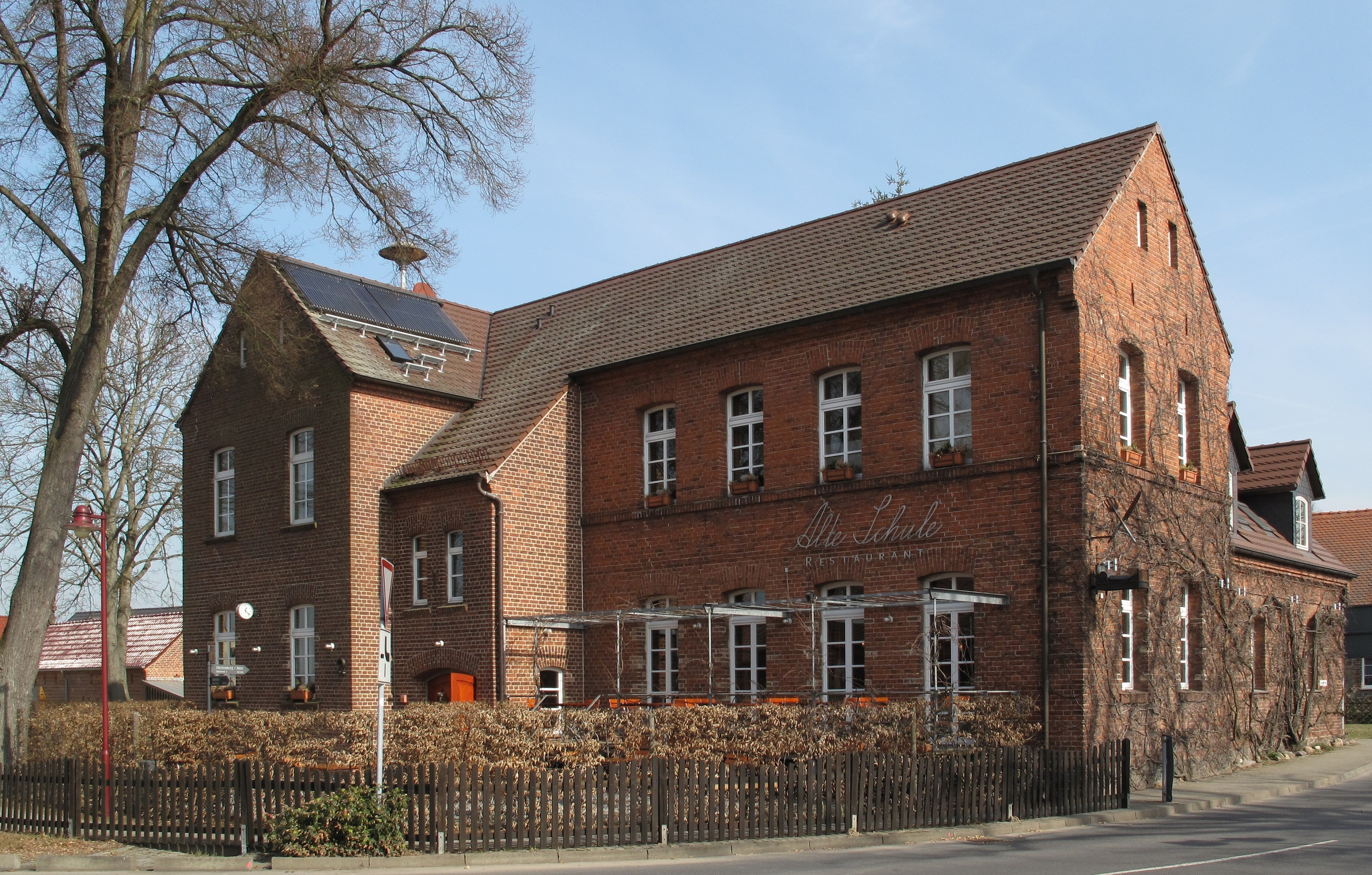 Former school, today restaurant and hotel „Alte Schule“, in Reichenwalde, District Oder-Spree, Brandenburg, Germany. The red-bricked schoolhouse was built in 1818. The school activity ceased in 1975. In 2001 the restaurant was opened.